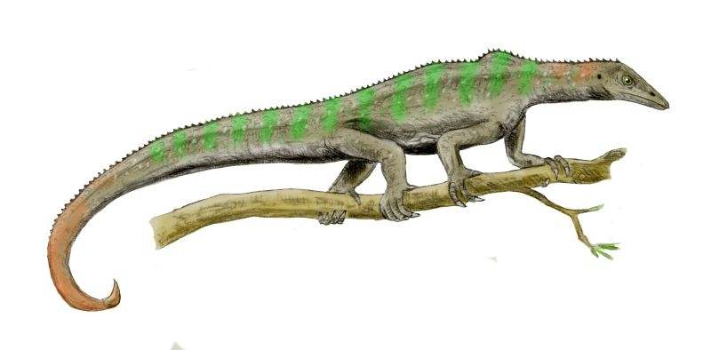 Megalancosaurus preonensis, a prolacertiform from the Late Triassic of Northern Italy, pencil drawing